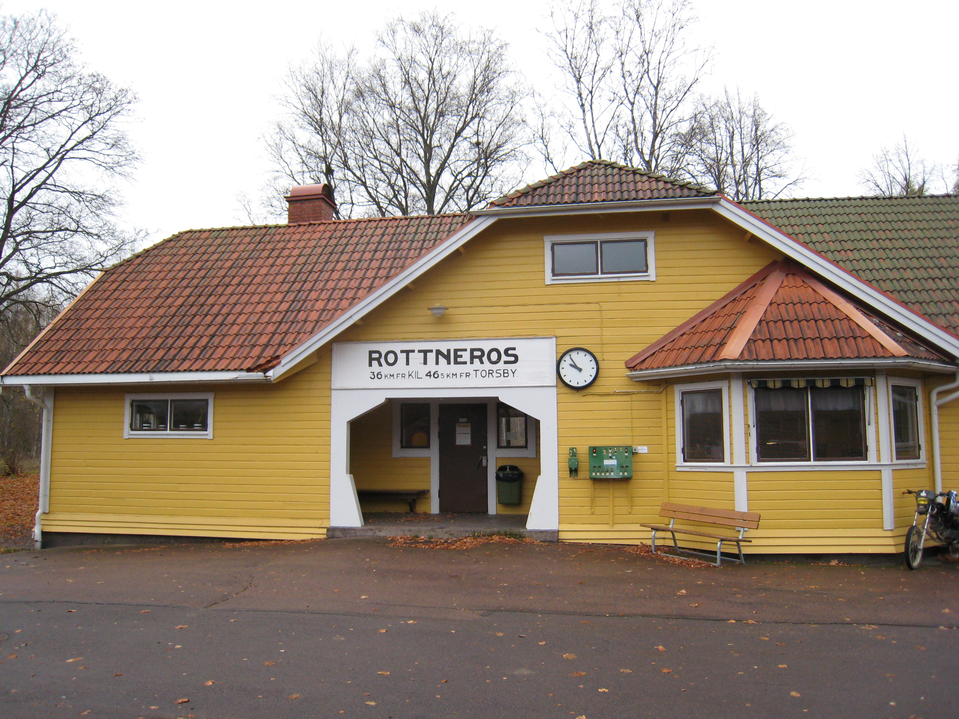 The railwaystation at Rottneros, Värmland, in Sweden